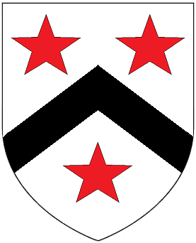 Arms of Davie of Creedy in the parish of Sandford, Devon: Argent, a chevron sable between three mullets gules. The family of Davie is said by Swete (Gray, Todd & Rowe, Margery (Eds.), Travels in Georgian Devon: The Illustrated Journals of The Reverend John Swete, 1789-1800, 4 vols., Tiverton, 1999, Vol.3, p.120) to have derived from the family of de Way (Latinised to de Via, of which "Davie" is said to be a corrupted form) of the manor of Way in the parish of St Giles in the Wood, (sometimes stated incorrectly to be in the parish of Horwood, 3 miles north-east of Bideford (i.e. Swete, vol.3, p.98) near Great Torrington, Devon. The family of Pollard inherited (or purchased) the manor of Way (Hoskins, W.G., A New Survey of England: Devon, London, 1959 (first published 1954), p.470) and adopted these "de Way"/Davie arms which thenceforth they used either alone or quartered by their own arms of Argent, a chevron sable between three escallops gules.(Prince, John, (1643–1723) The Worthies of Devon, 1810 edition, p.783) The Pollard family inherited the manor of Horwood from the Cornu family and these de Way/Pollard mullet arms are visible on their own on several 17th century Pollard monuments in Horwood Church. These arms are also shown pierced.